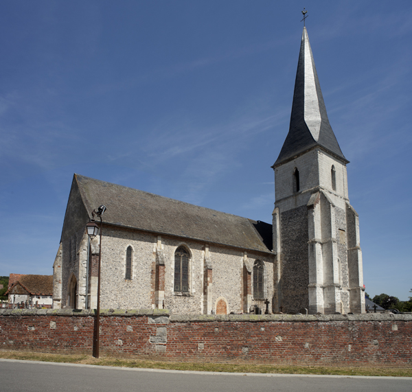 ref: PM_062695_F_Saint_Aubin_le_Cauf; Saint-Aubin-le-Cauf; Eglise Saint-Aubin; Normandie, Seine-Maritime; France; Partie sud-ouest; Cultural heritage; Europe/France/Saint-Aubin-le-Cauf; Wiki Commons; Photographer: Paul M.R. Maeyaert; © Paul M.R. Maeyaert